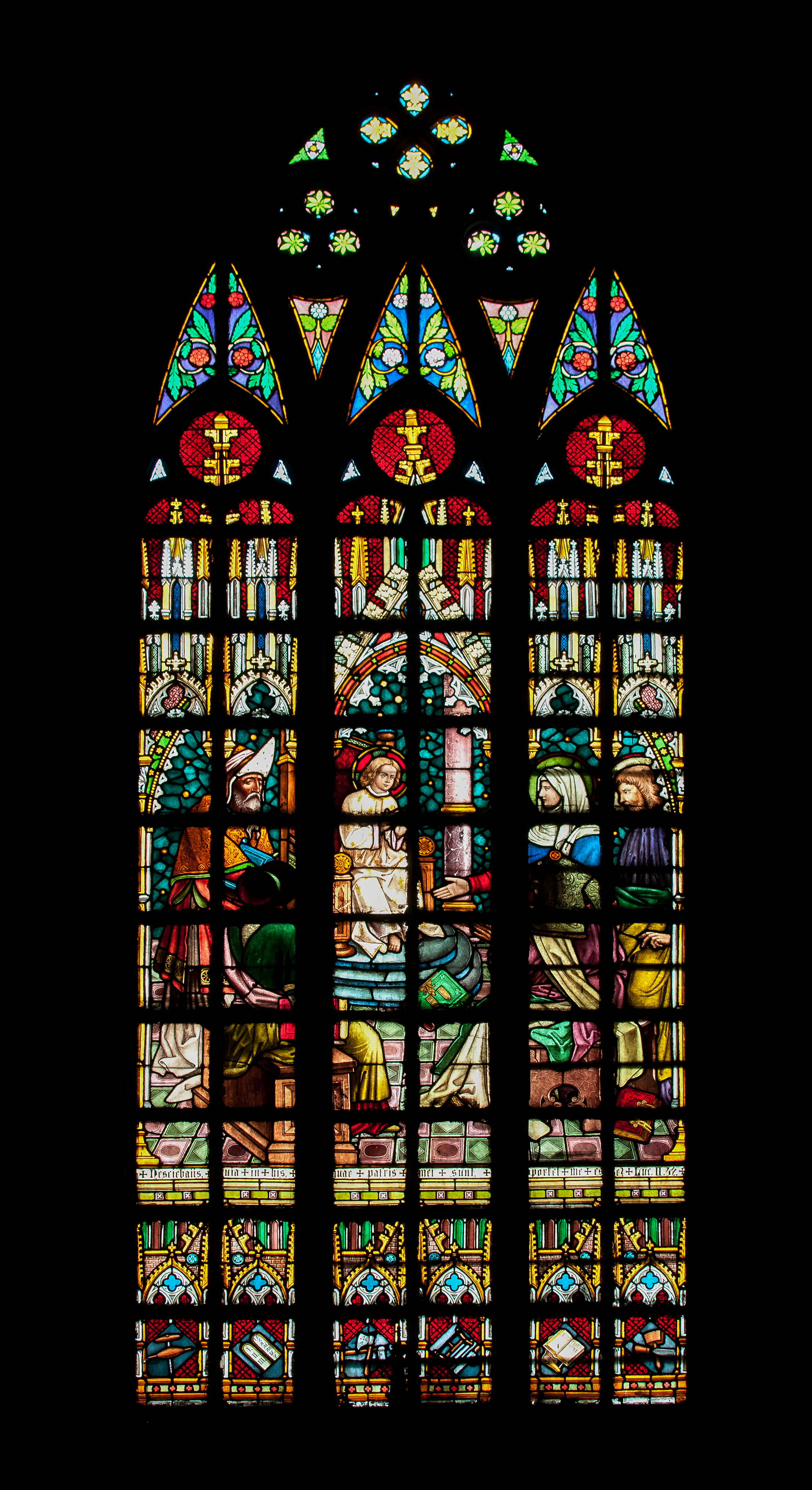 A closer look at the Stained Glass window that can be found inside San Sebastian Church